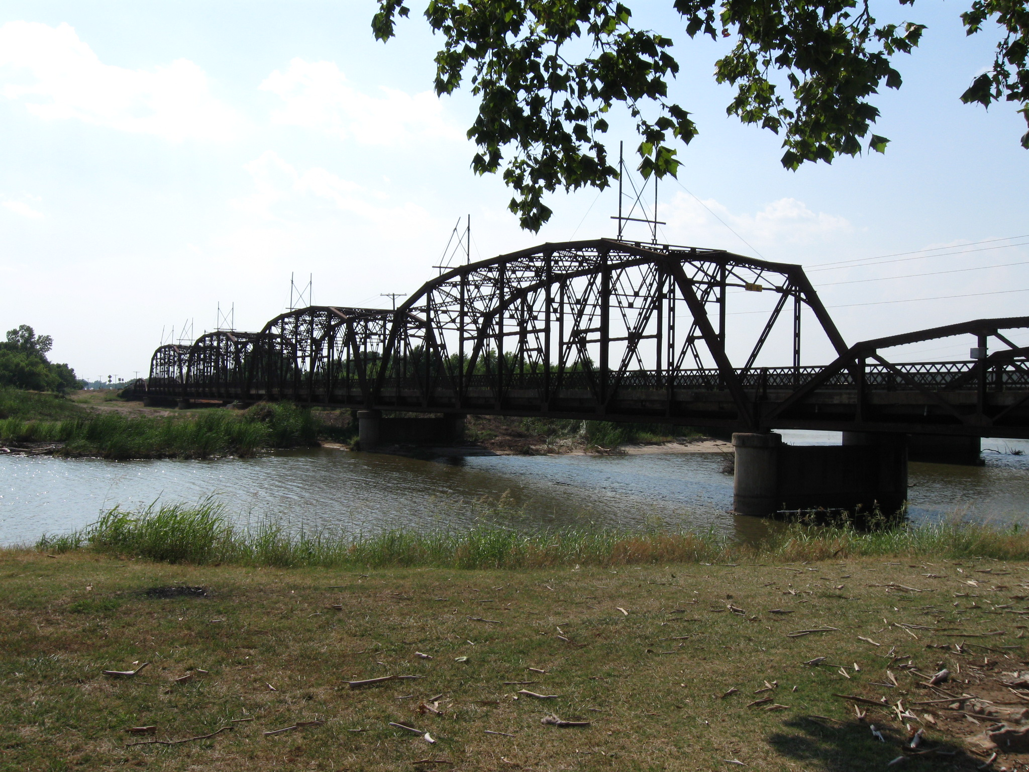 Route 66 bridge over the North Canadian River just upstream of Lake Overholser in Oklahoma City, Oklahoma.